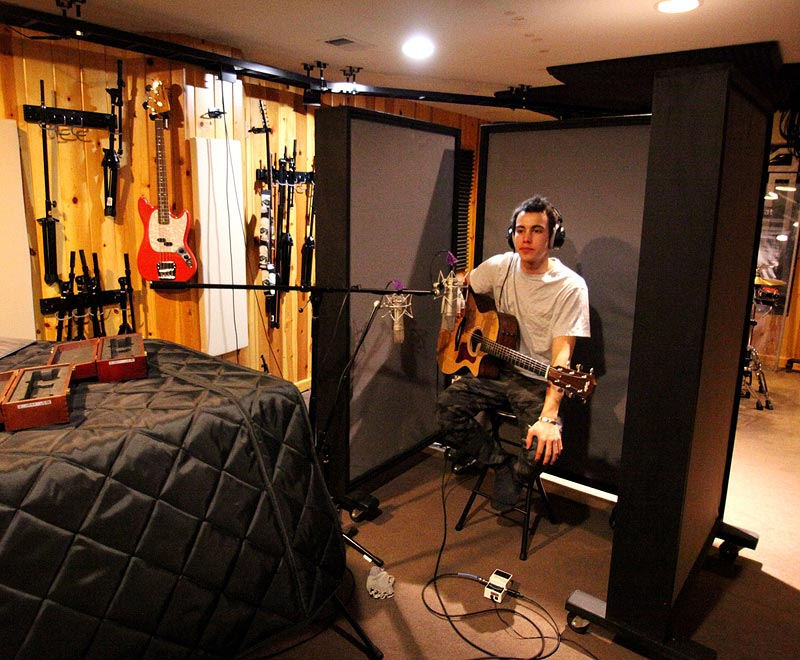 Custom built sound absorption gobos at HyperThreat Sound Studio help isolate sound to allow clean audio reproductions. Uses compressed fiberglass material covered with a rough fabric